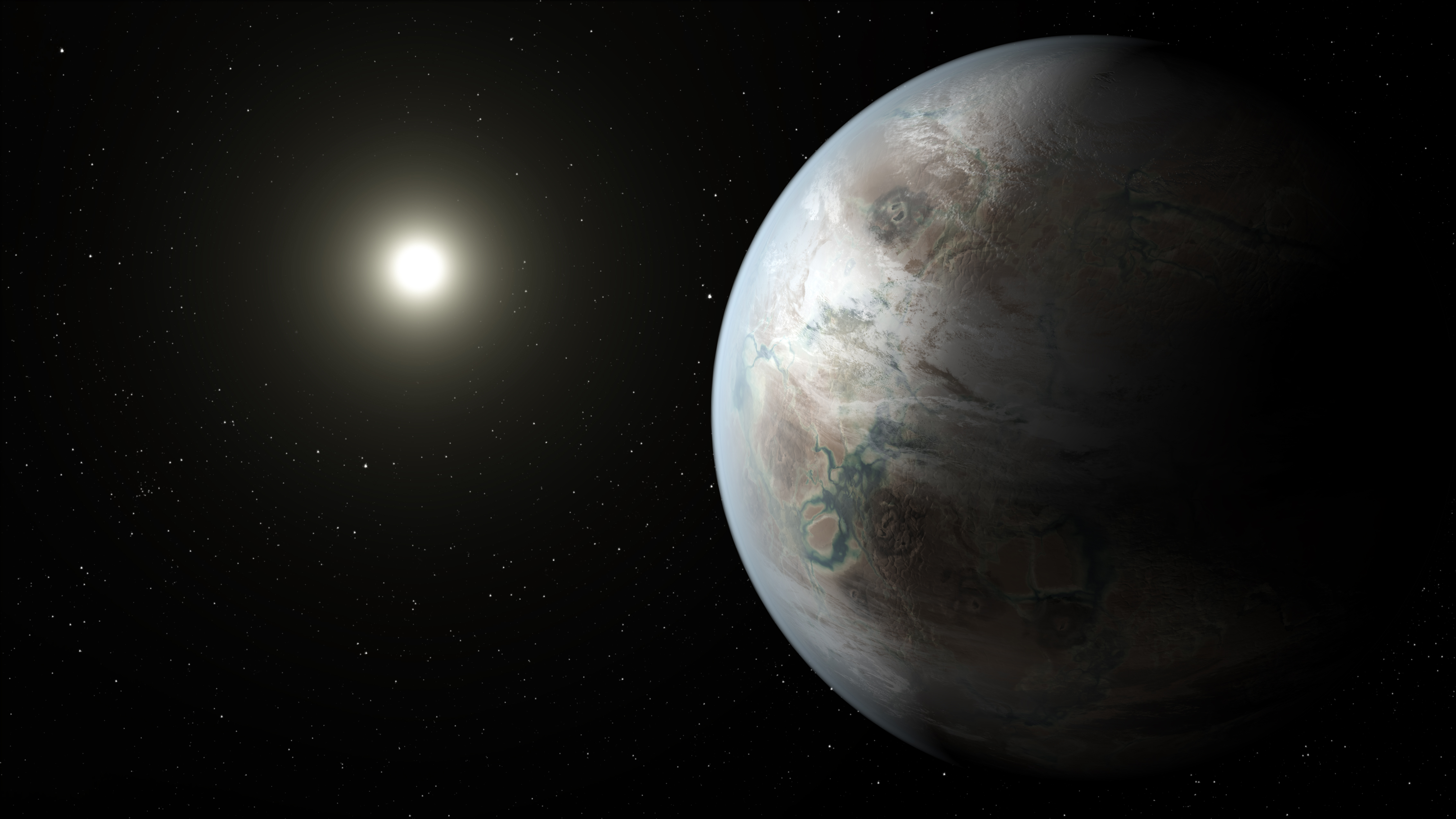 An artist's concept depicting one possible appearance of the planet Kepler-452b, the first near-Earth-size world to be found in the habitable zone of a star that is similar to our sun.